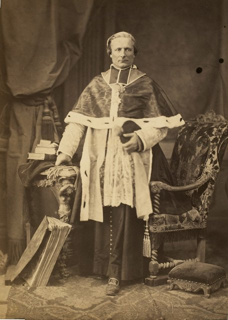 Joseph-Alfred Foulon 1823–1893, french archbishop of Lyon and cardinal, photographied in 1863 as canon of the cathedral Notre-Dame of Paris.